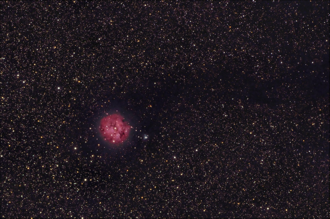 IC 5146 "Cocoon Nebula" in Cygnus